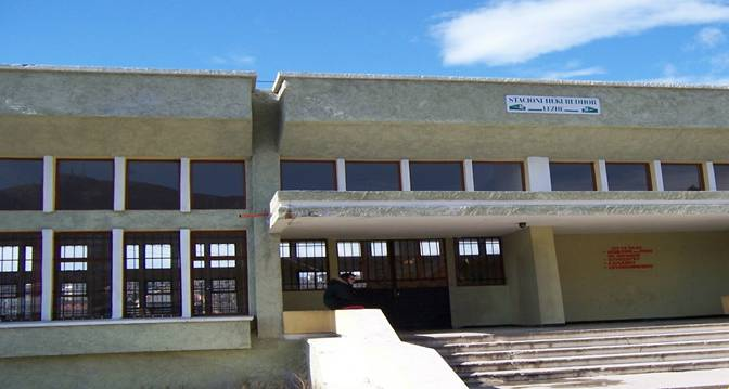 Lezhë Rail Station